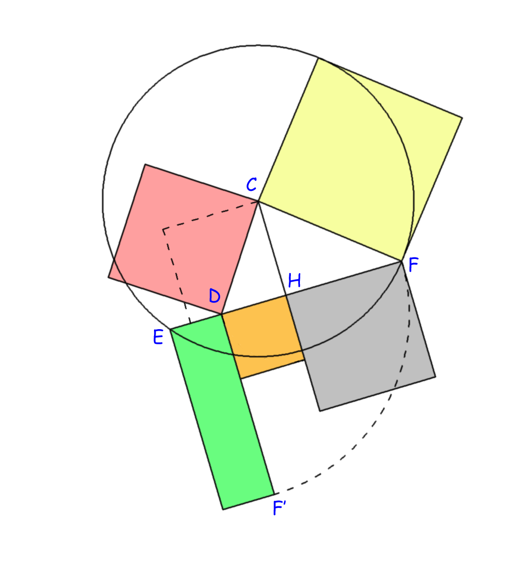 Euclid's Elements Book III, Proposition 35: "If in a circle two straight lines cut one another, then the rectangle contained by the segments of the one equals the rectangle contained by the segments of the other"